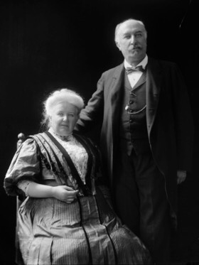 Giovanni Giolitti and his wife Rosa Sobrero.